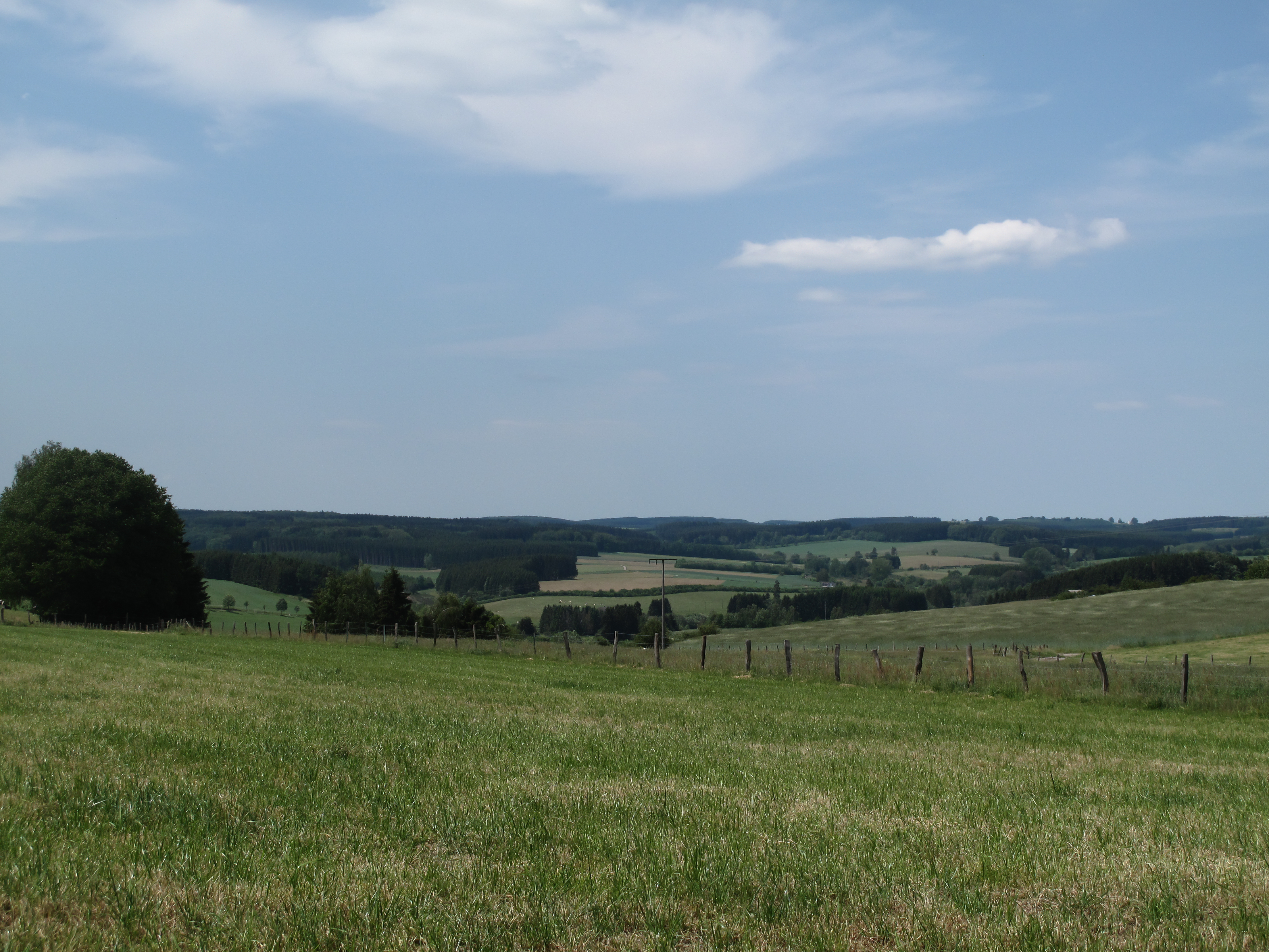 between Drinklange and Troisvierges, panorama